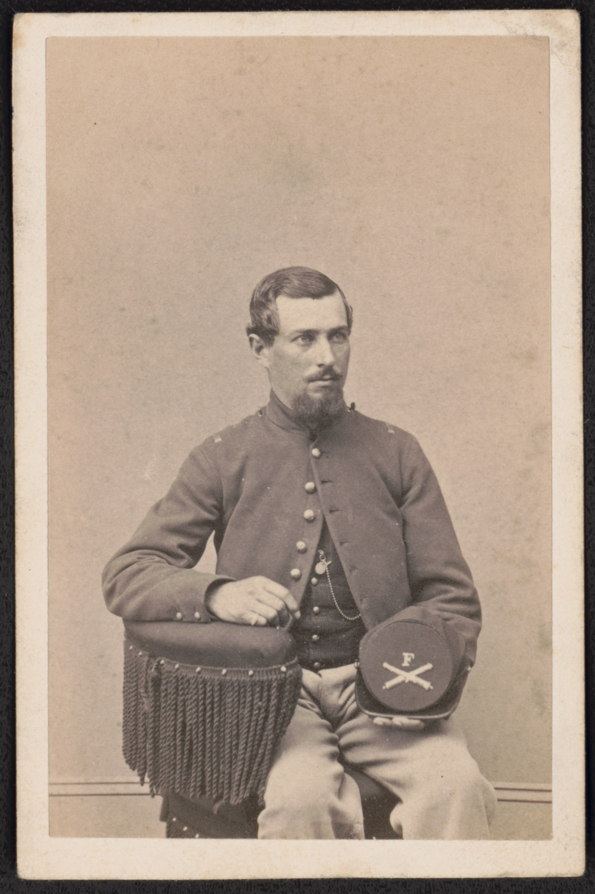 Title: Unidentified soldier from Co. F, 1st New Hampshire Heavy Artillery Regiment in uniform] / Brady's National Photographic Portrait Galleries, No. 352 Pennsylvania Avenue, Washington, D.C. and Broadway & Tenth St., N.Y Abstract/medium: 1 photograph : albumen print on card mount ; mount 11 x 6 cm (carte de visite format)